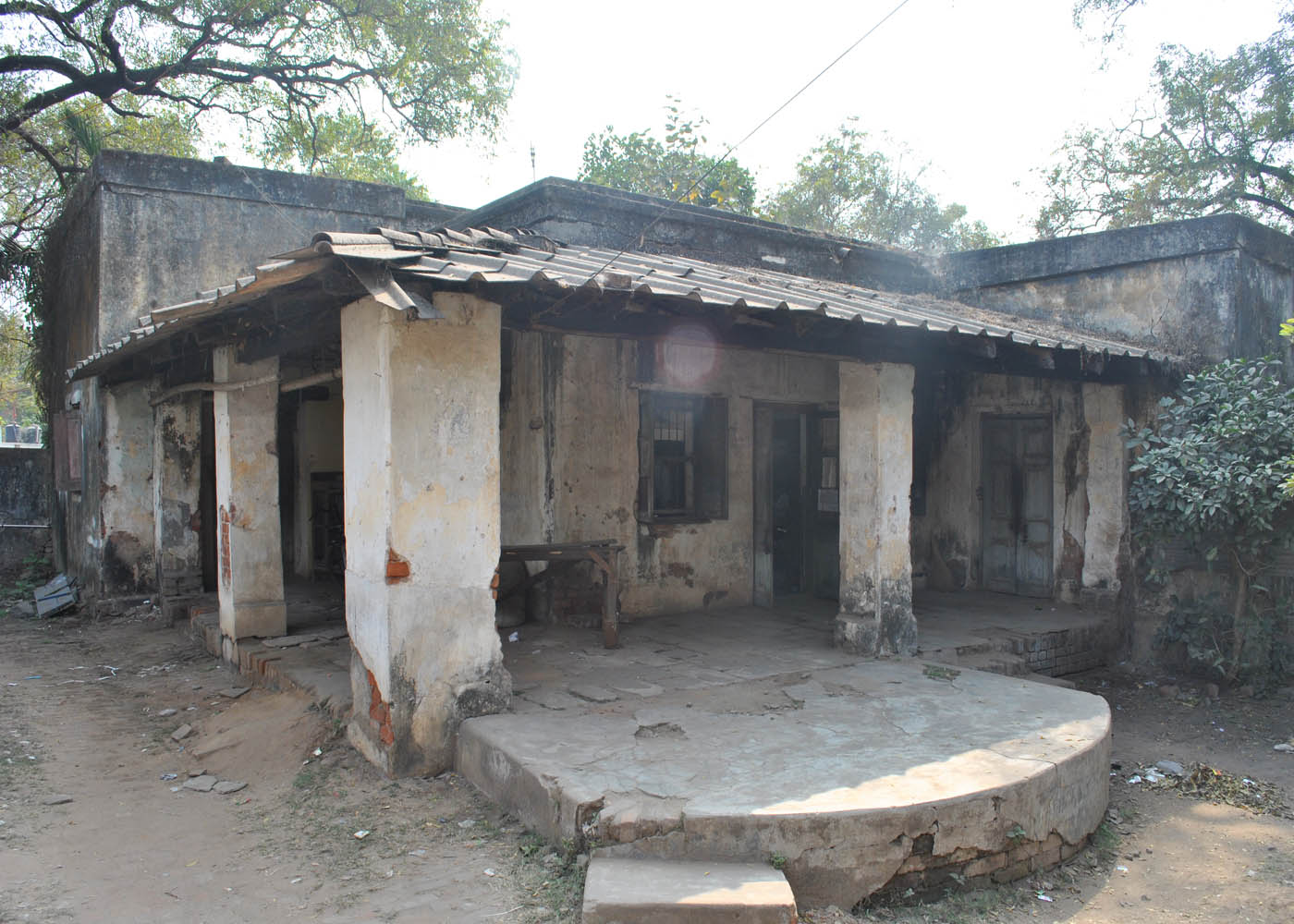 Lakshimath Bezbaruah was residing with his parents in the house located near Mandela Chowck, Sambalpur, Odisha. Odhisa Government is planning this house to his museum.